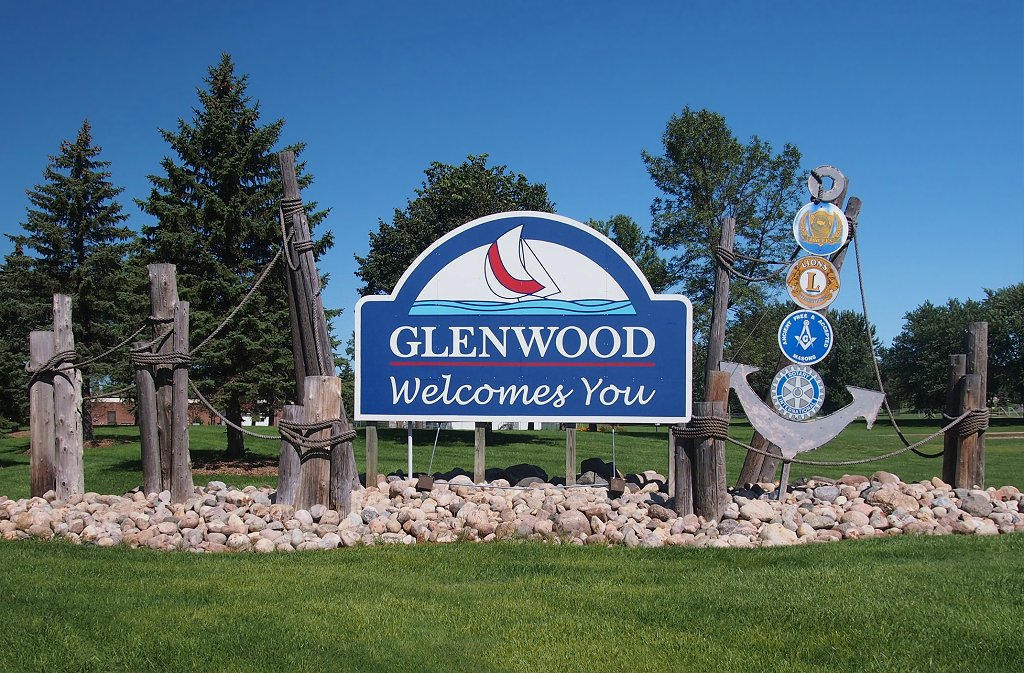 Welcome sign, Glenwood, Minnesota, USA. Viewed from the south.